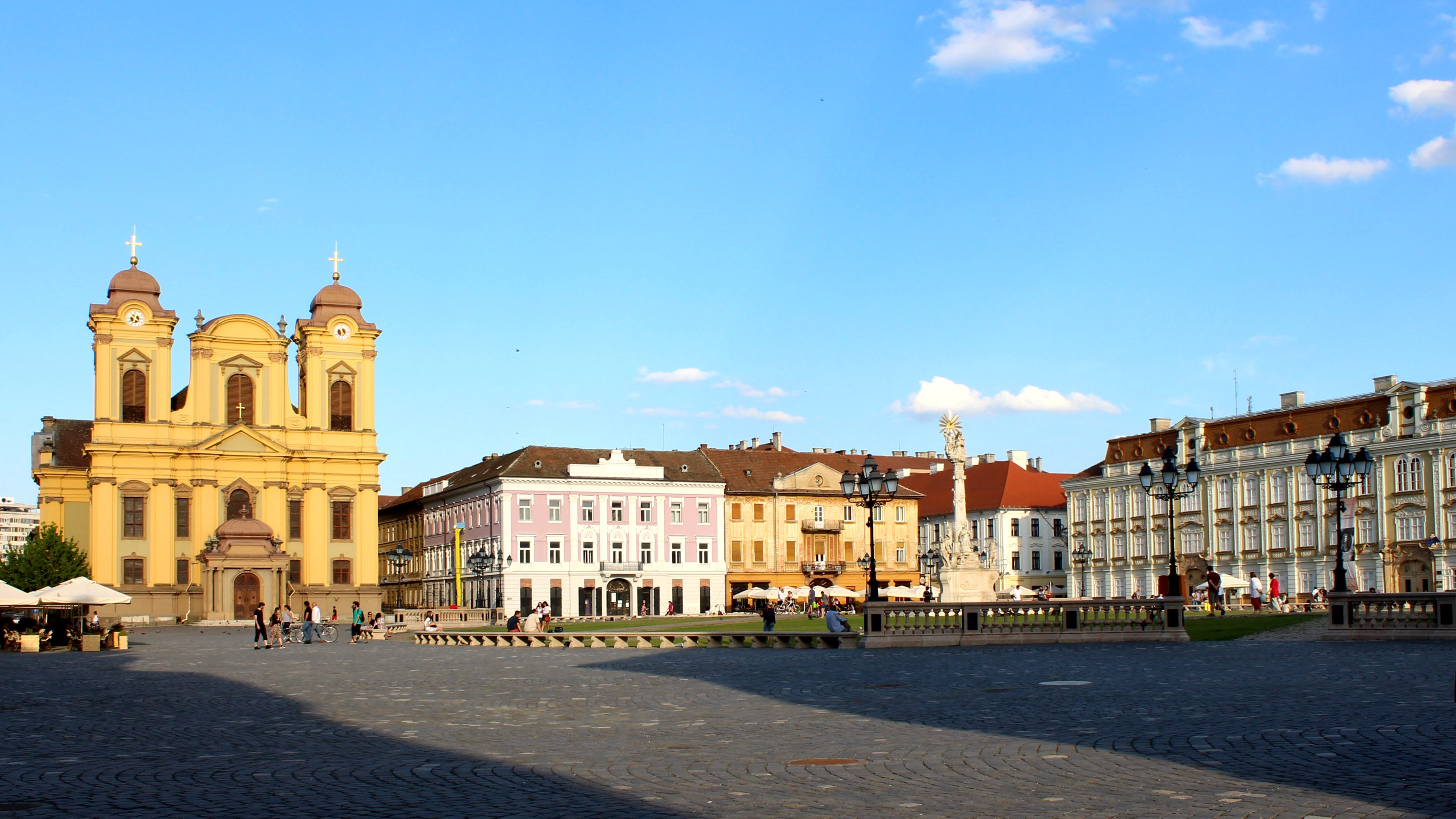 Union Square in the evening, Timișoara, Romania